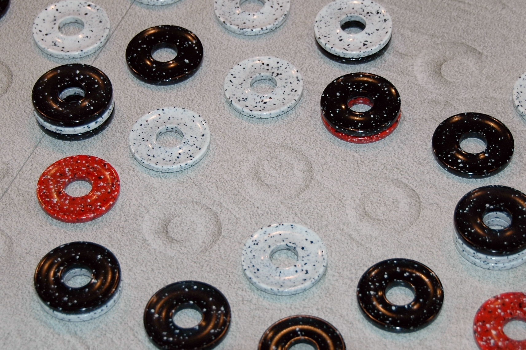 Close up of a game of DVONN in play